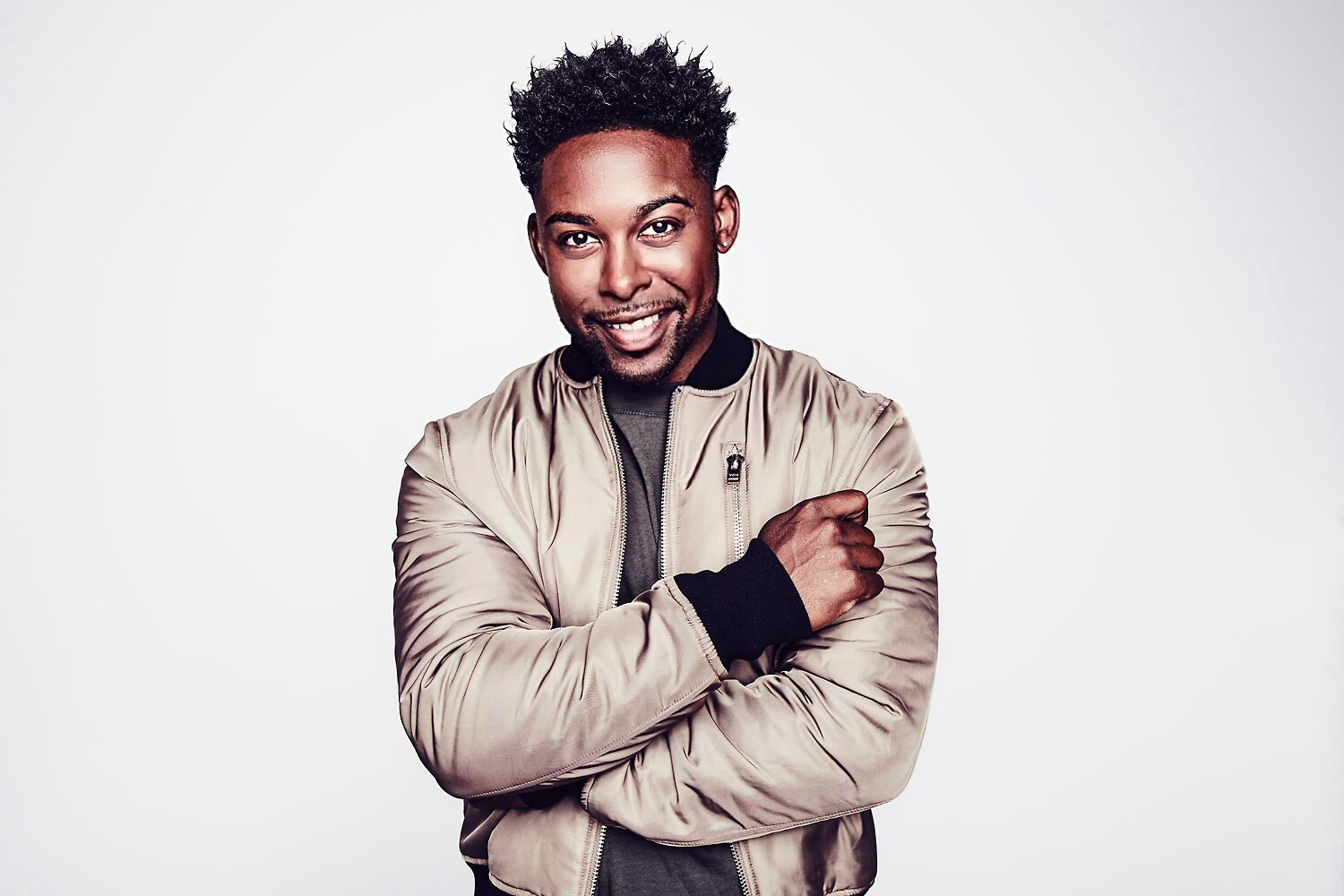 John Lundvik